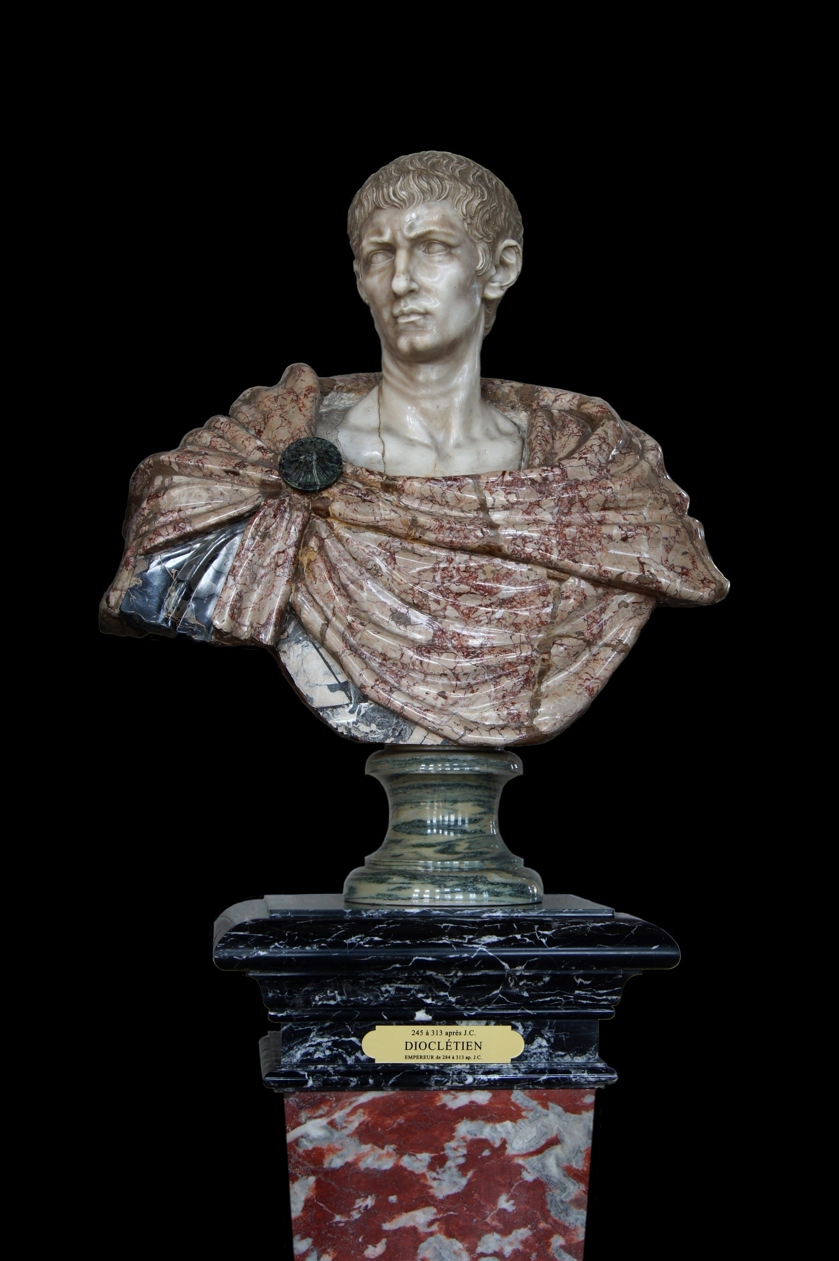 Gaius Aurelius Valerius Diocletianus (ca.245-313), Roman Emperor Diocletian. Marble bust, XVIIth century, Florence, Italy. On display at Château de Vaux-le-Vicomte, France.